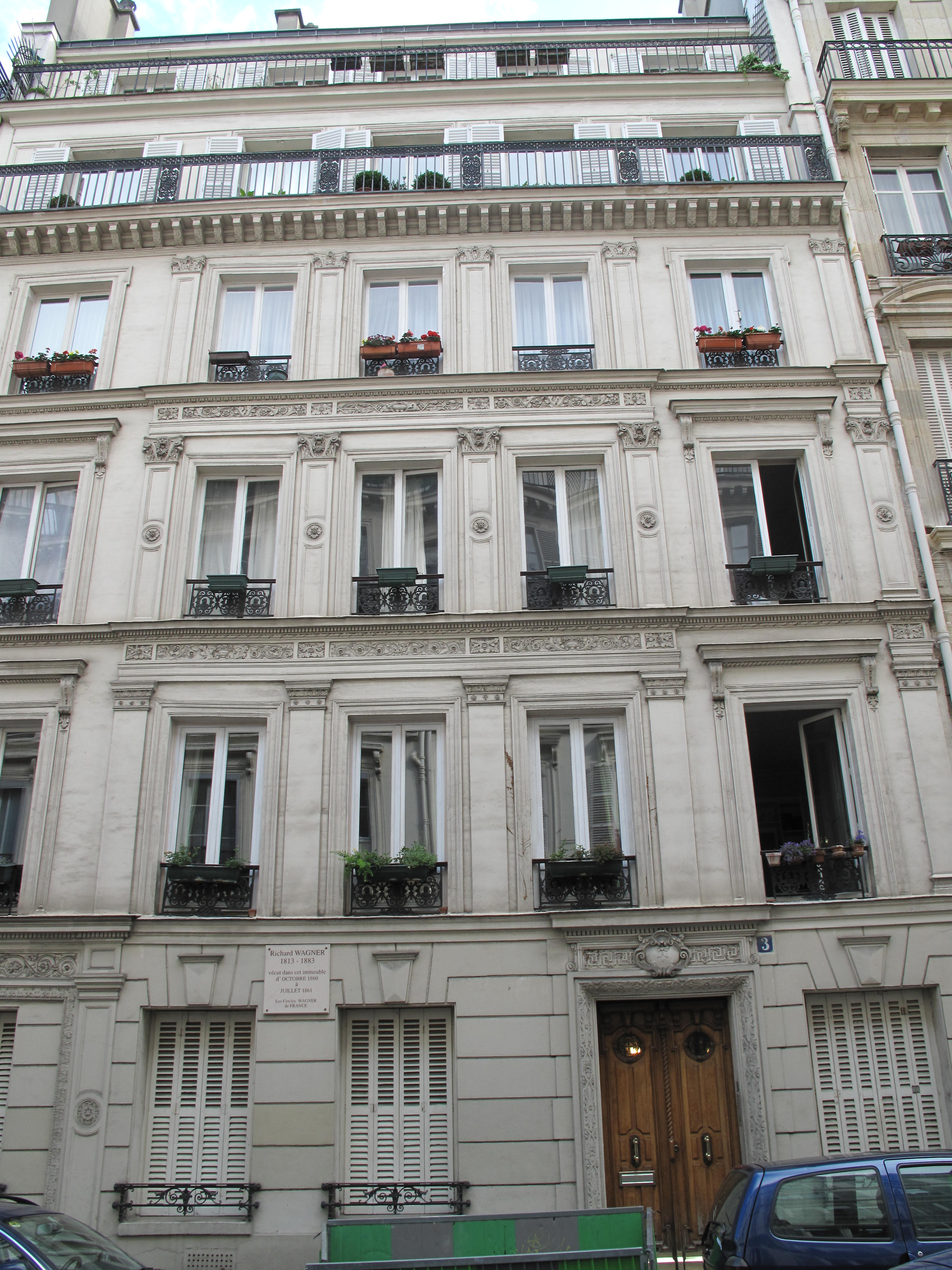 Building where lived Richard Wagner in Paris : 3, rue d'Aumale, 9th arrond.